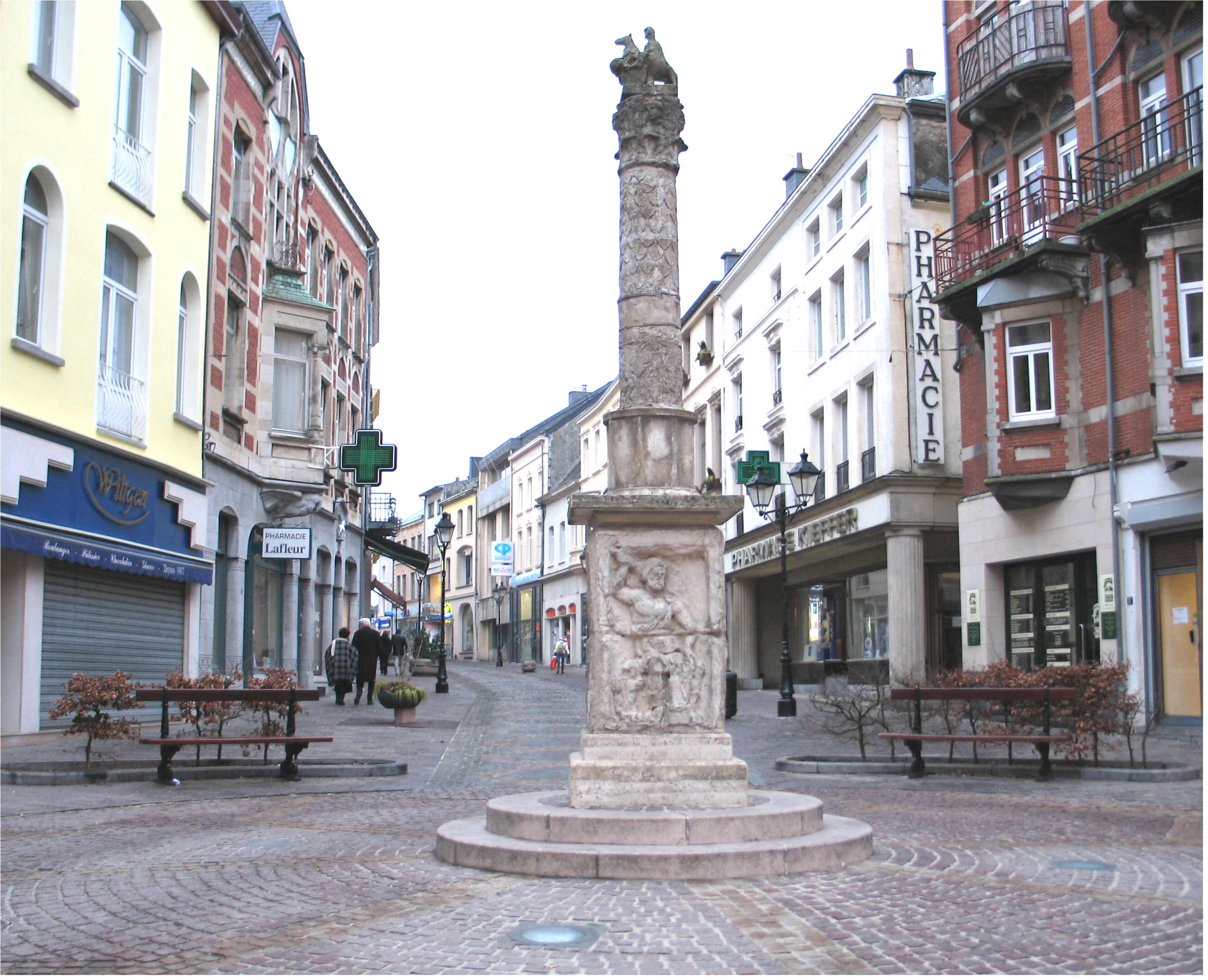 Main street in Arlon, Belgium